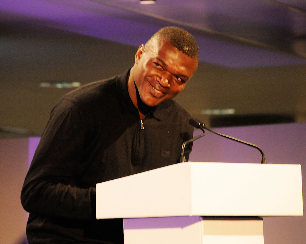 Former French player Marcel Desailly joins Sir Bobby Charlton on stage at the 1Goal launch. The 1GOAL campaign - backed by the Department for International Development and the Global Campaign for Education - is aiming to recruit tens of millions of supporters through a mass sign up campaign to achieve a school place for the 75 million children out of school globally, pushing for: • Governments to give more aid to for education – an extra $7bn is needed – and stand by their current pledges • Greater investment for more teachers, textbooks and schools in developing countries • The millions of people in the developing world to understand the importance of sending their children to school